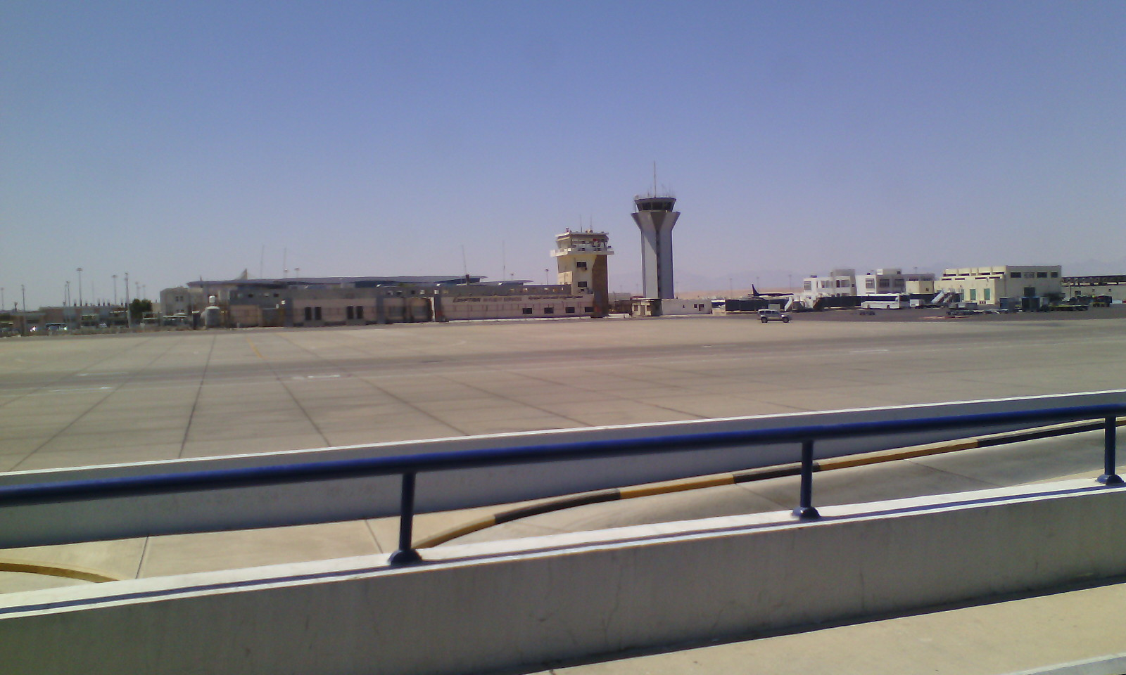 Airport at Hurghada, Egypt